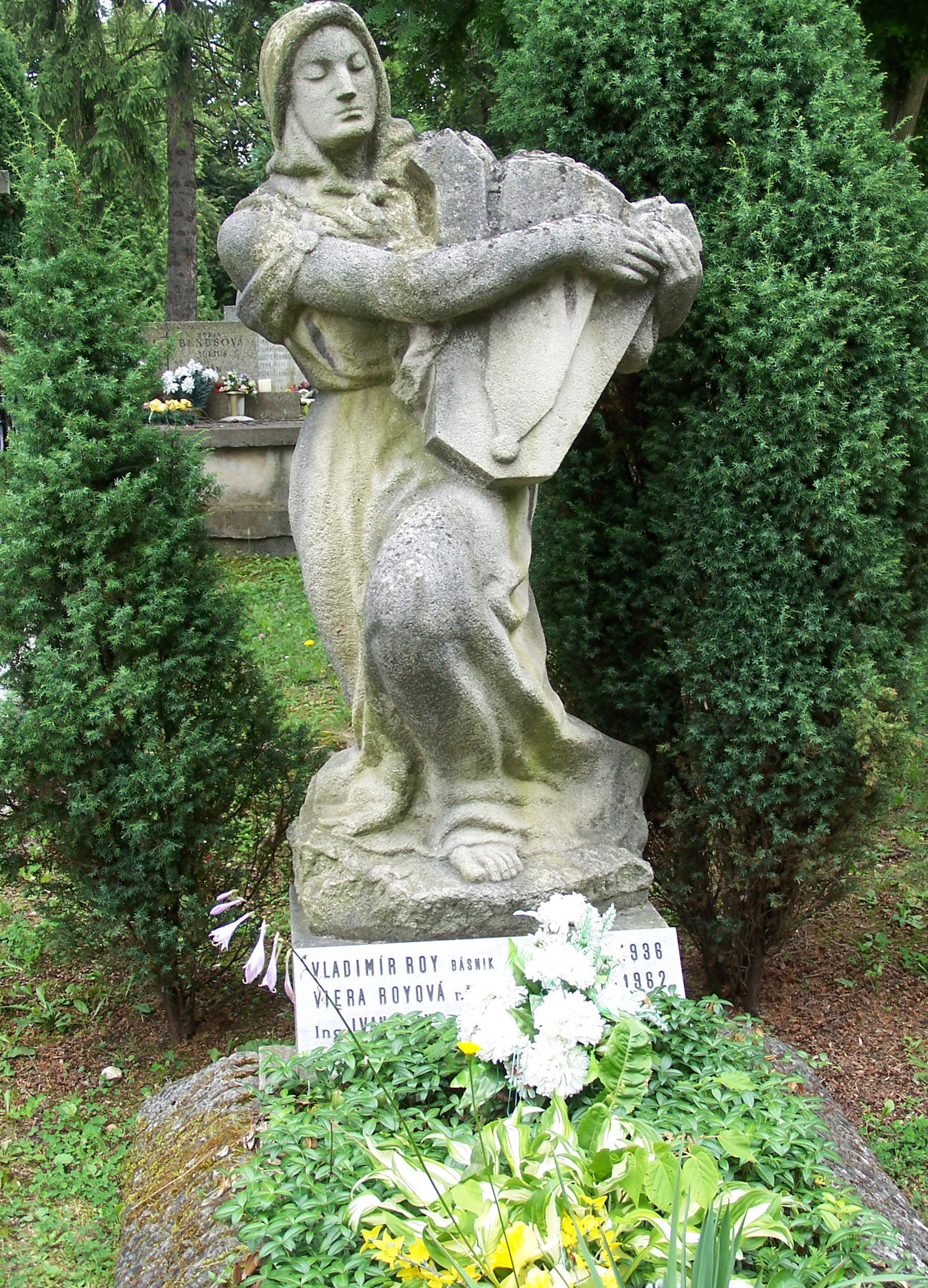 Grave of Vladimír Roy at the National Cemetery in Martin, Slovakia